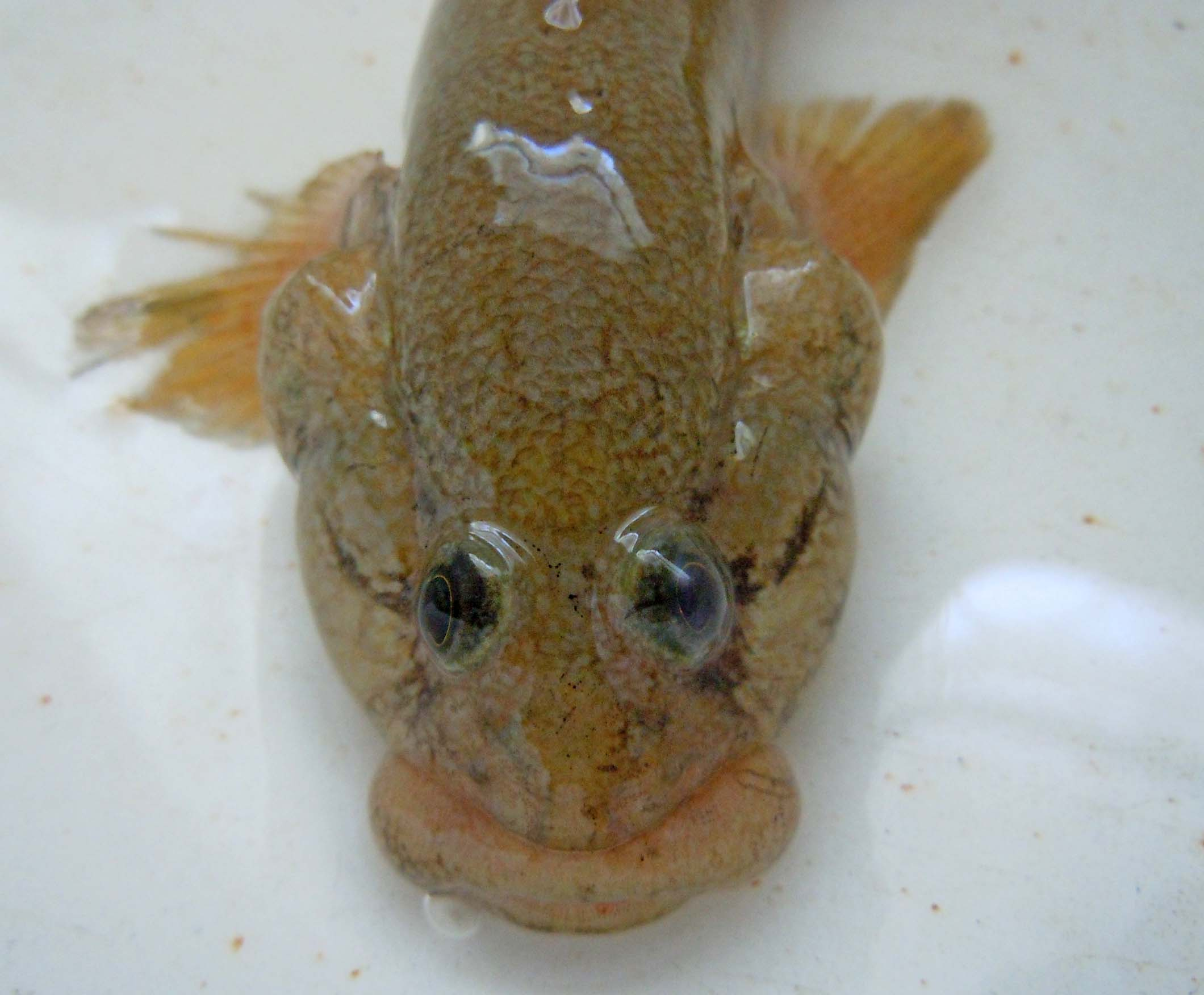 The head of the flatsnout goby (Ponticola platyrostris) from the Black Sea near Gelendzhik, Caucasus